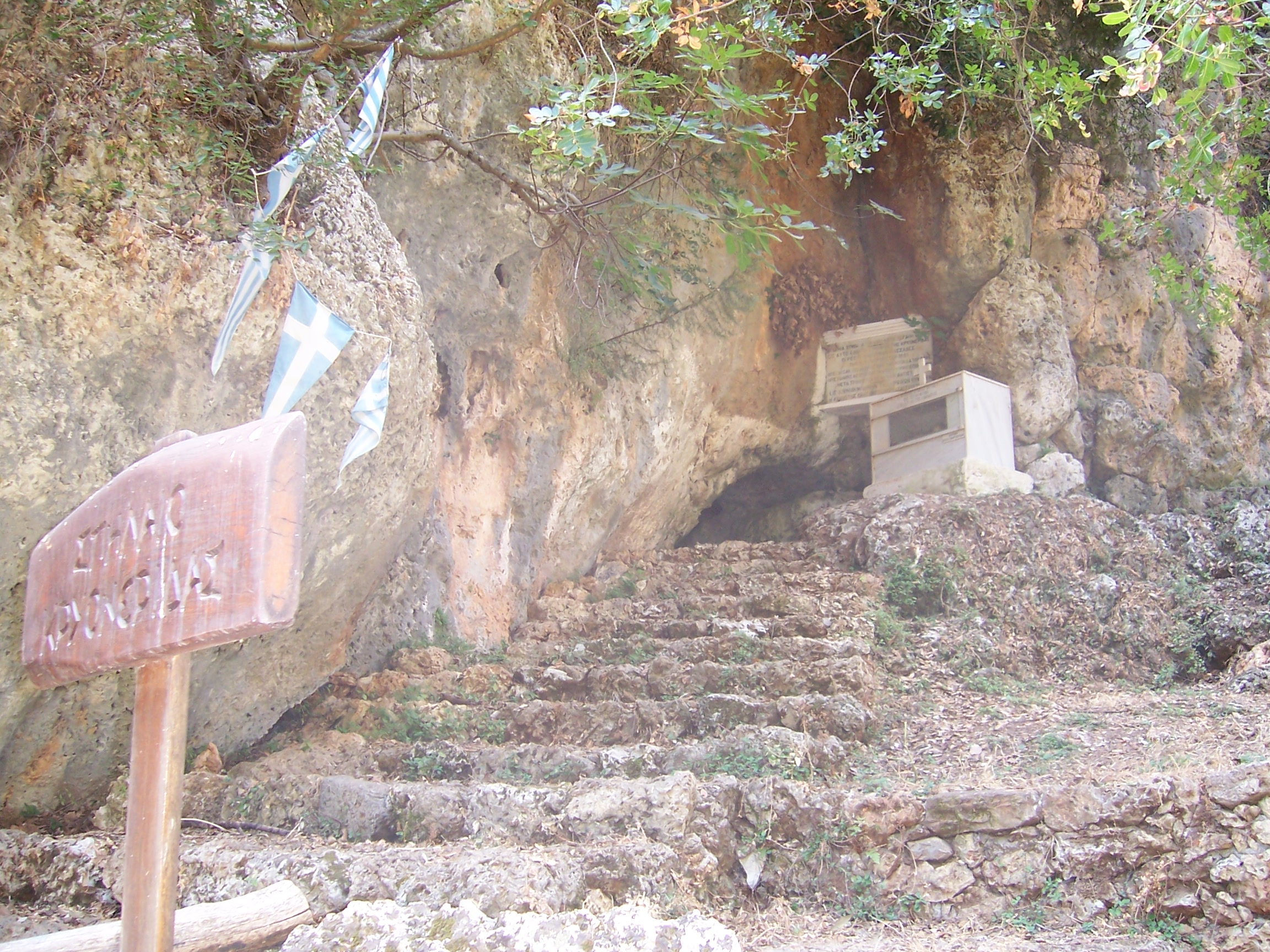 Kryonerida's cave in Vafes (Crete, Greece)